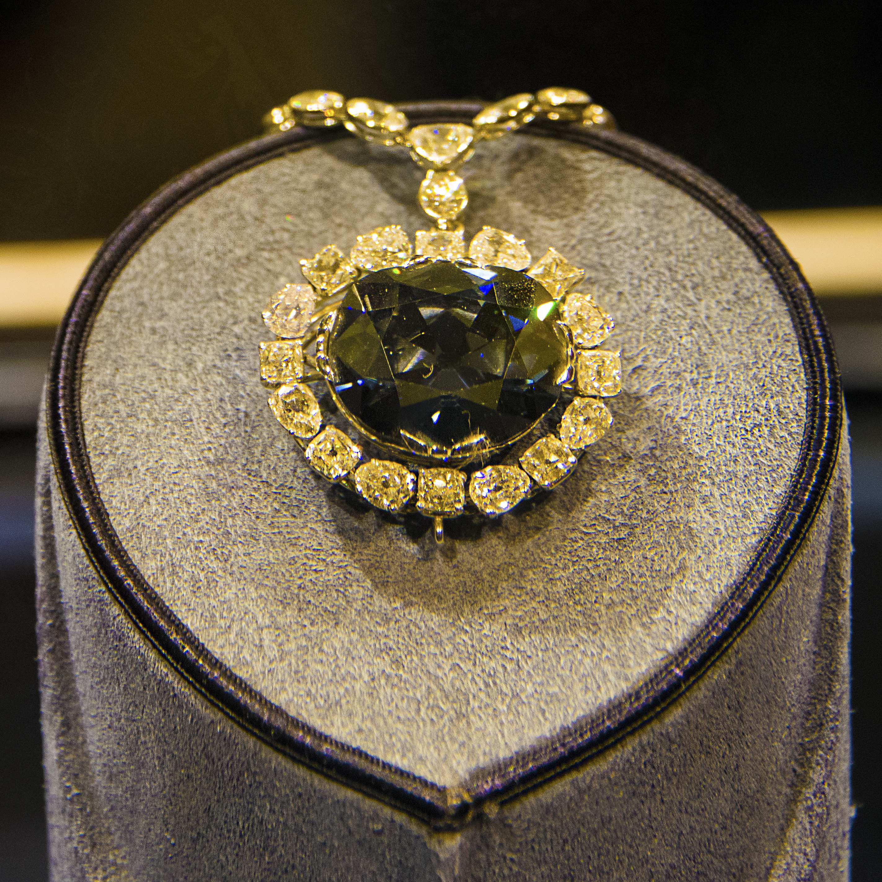 Hope Diamond in the Smithsonian Museum of Natural History, Washington DC